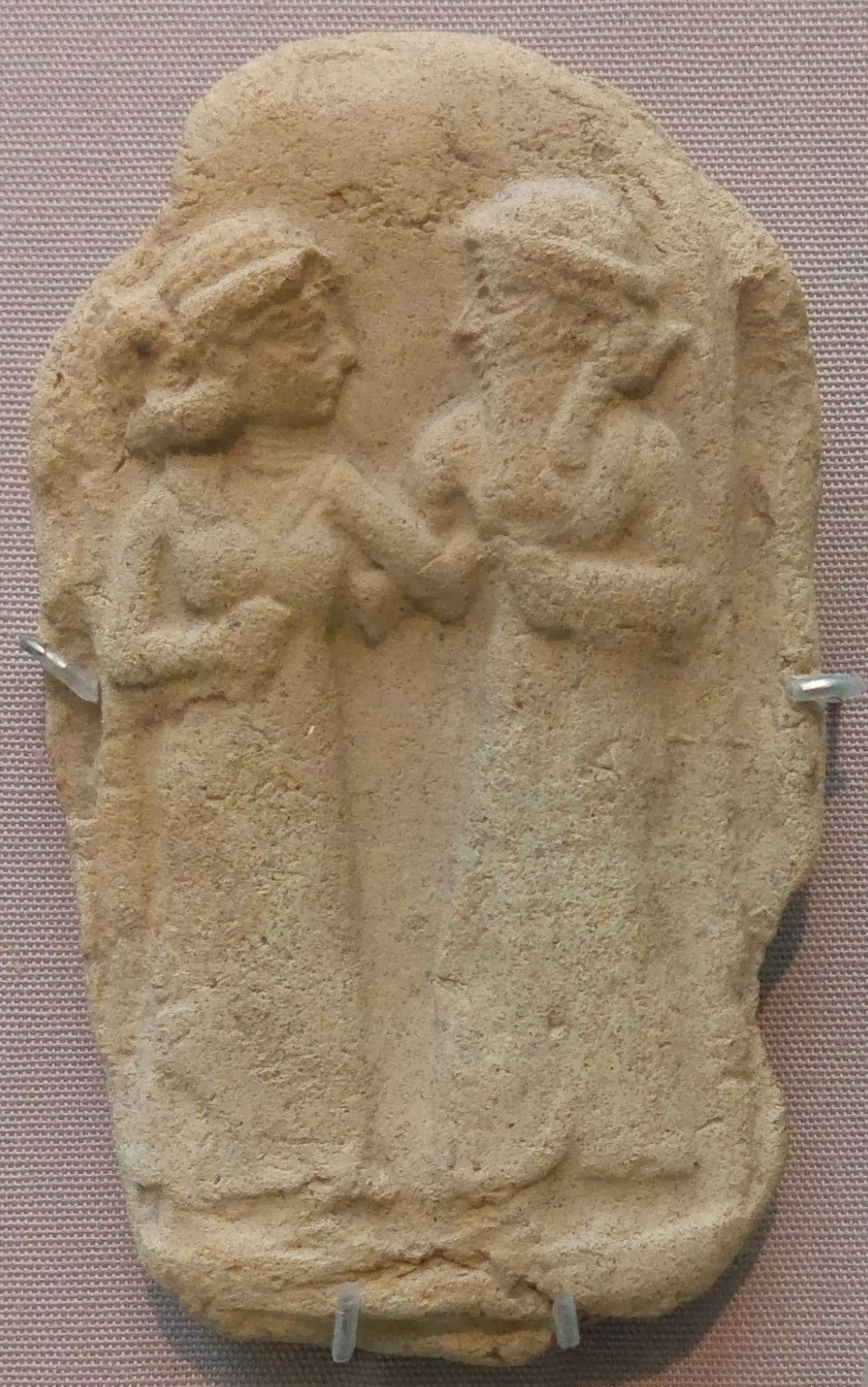 Baked-clay plaque of an affectionate couple. Excavated in Ur, Old Babylonian period (2000-1600 BC). ME 116812.